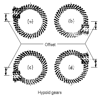 Offsets